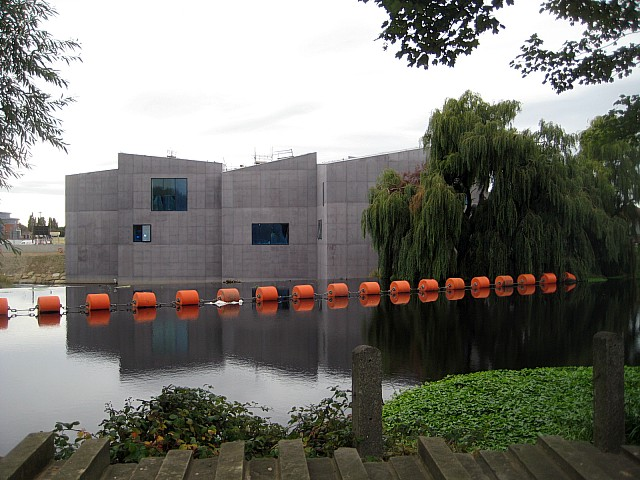 The Hepworth Wakefield. Looking across the weir from Thornes Lane. See 1507085